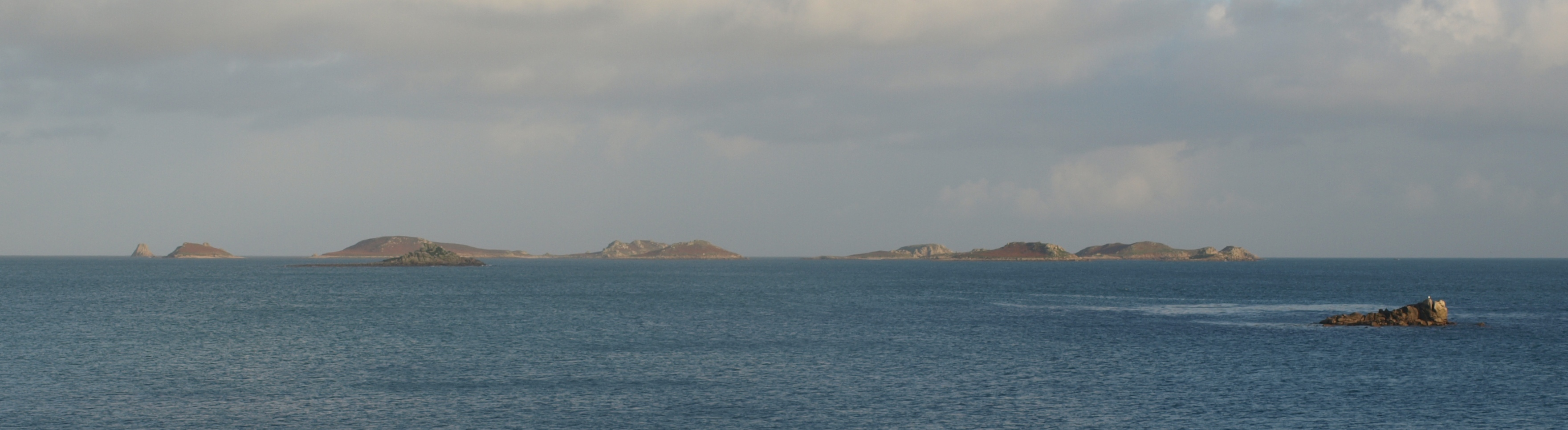 Taken from Pentle Bay, Tresco